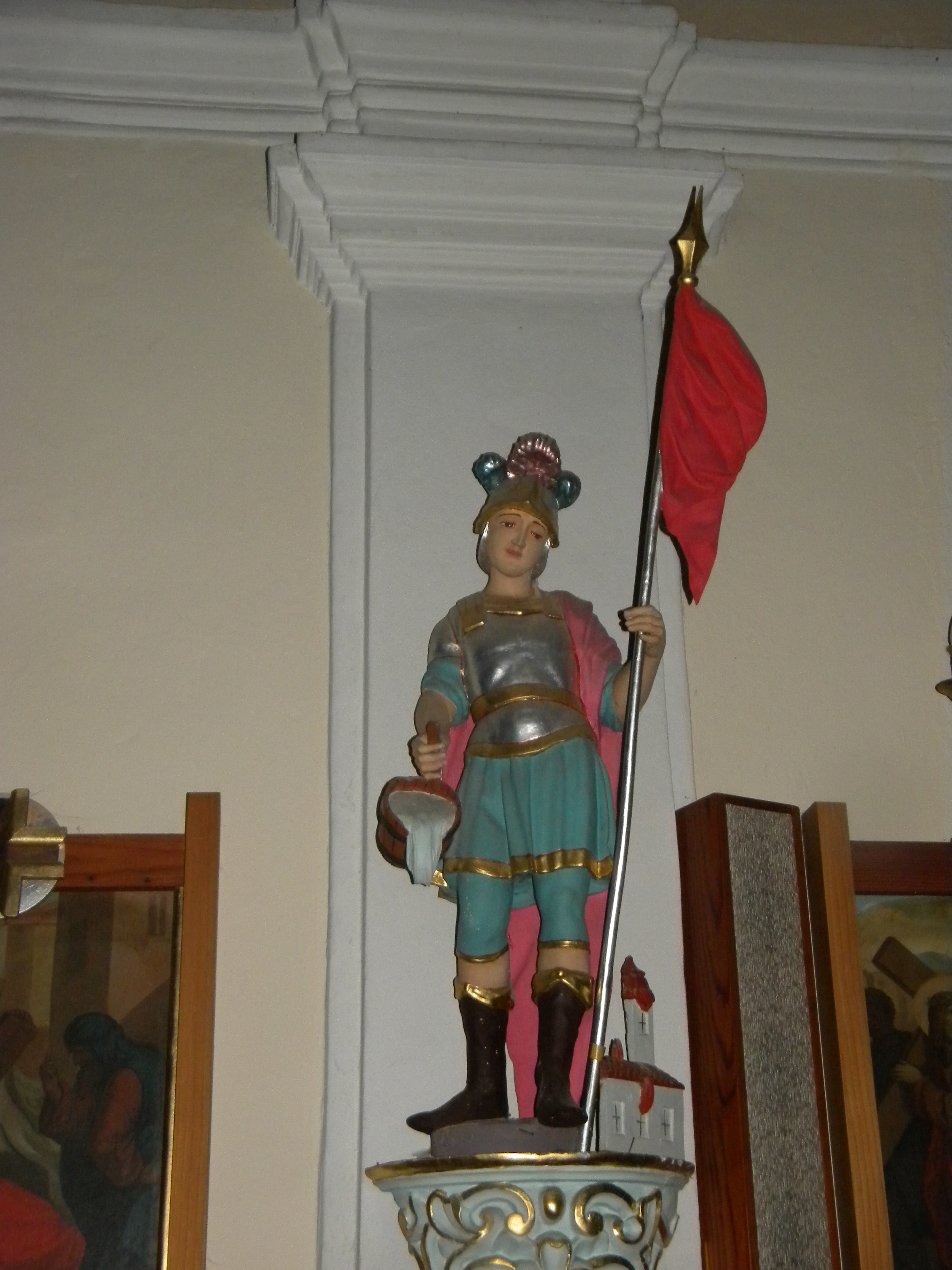 The st Florian